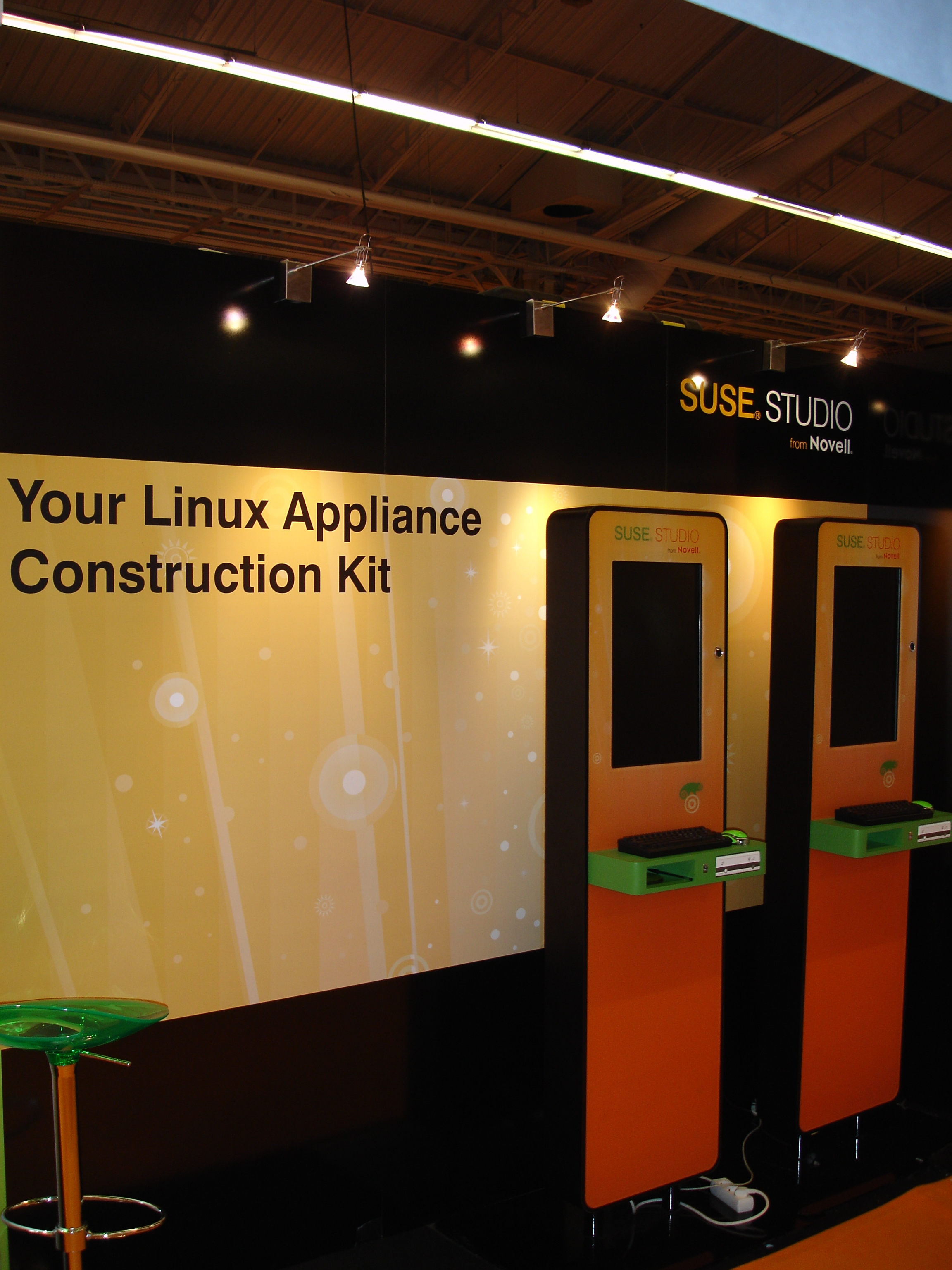 Demonstration booth for the SUSE Studio online custom Linux creation product from Novell, as seen at the Solutions Linux 2009 trade show in Paris.